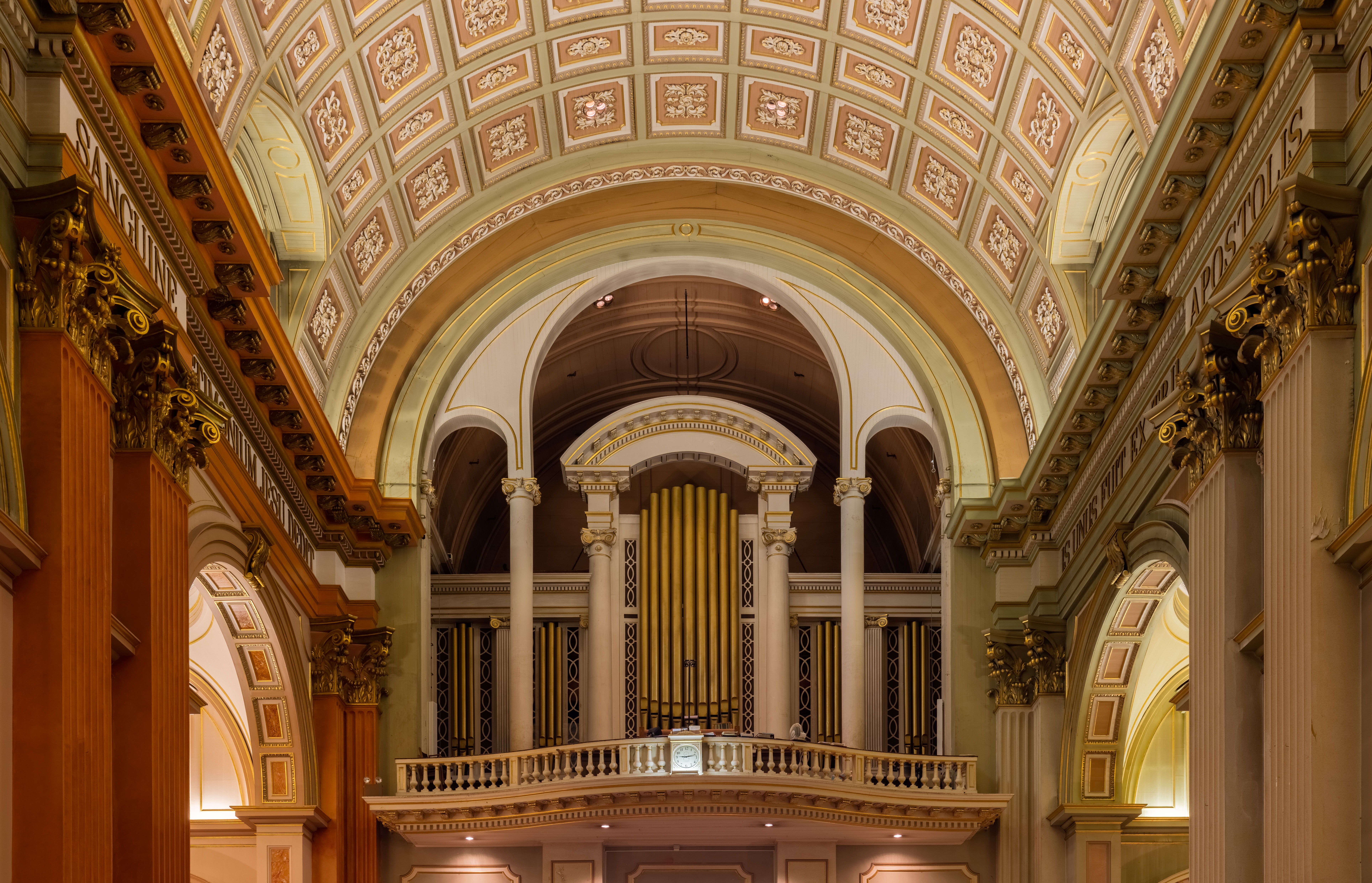 Cathedral-Basilica of Mary, Queen of the World, Montreal, Canada